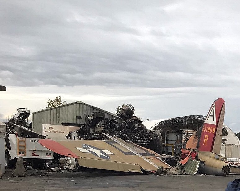 Wreckage of B-17 N93012 at Bradley International Airport on October 2, 2019